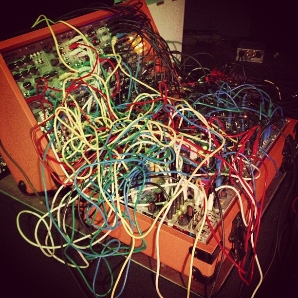 Keith Fullerton Whitman case #modular #eurorack #muffwiggler via Instagram instagr.am/p/VFGrZ4grNM/